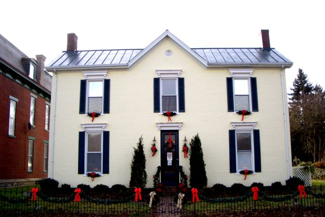 Photo of Rosemary Clooney's home in Augusta, Kentucky. It now houses many of her personal and professional belongings.